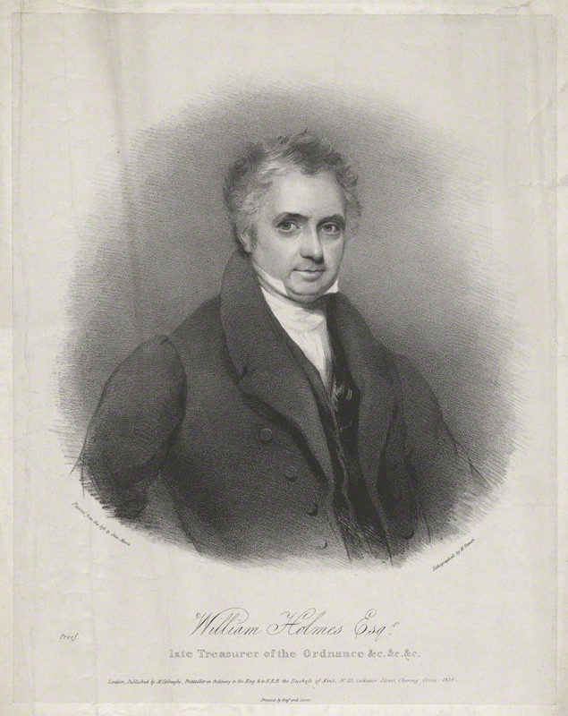 Portrait of William Holmes (1779–1851), Irish Tory politician.